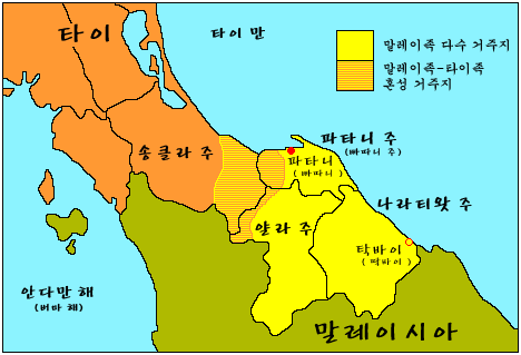 Korean translation of Image:Souththailandmap.GIF. Map showing the ethnic distribution in southern Thailand.